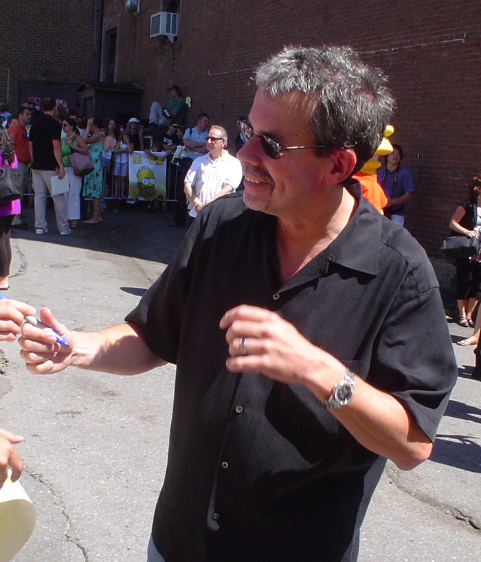 Mike Scully at the Simpsons Premiere in Springfield, Vermont